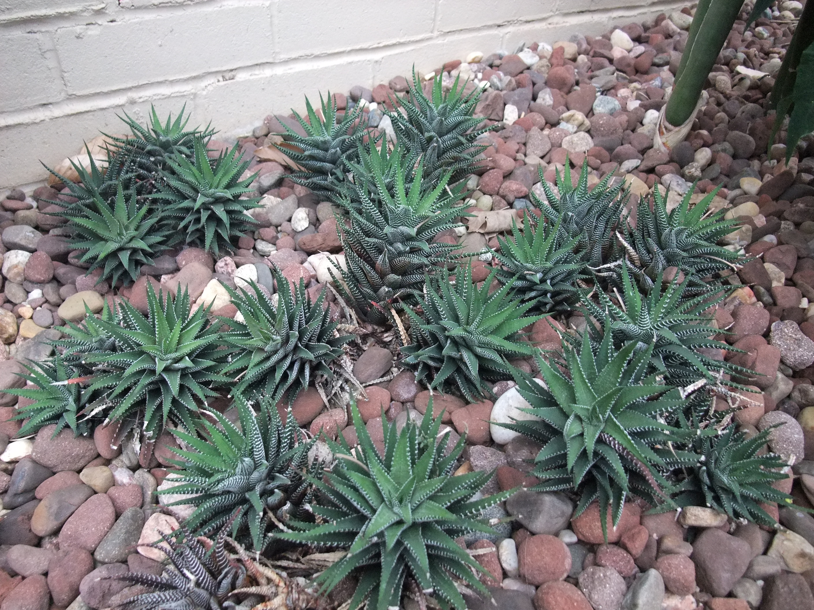 A photograph of a plant labeled as Haworthia attenuata var. clariperla.